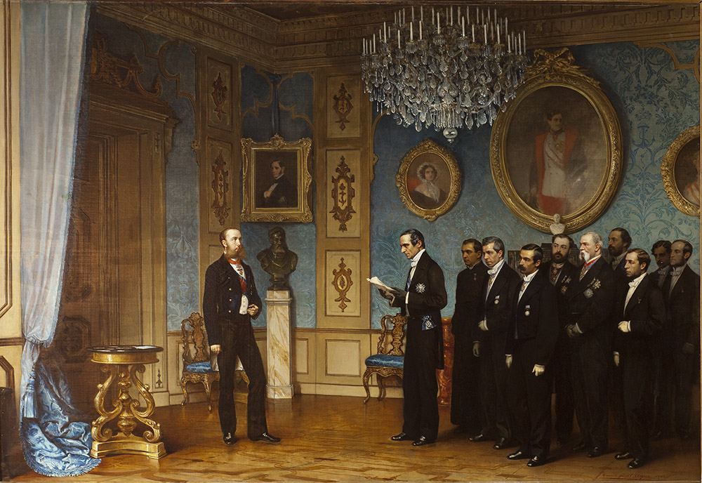 Painting by Cesare-Dell’Acqua: The Mexican Deligation appoints Ferdinand Maximilian of Austria as Emperor of Mexico (1864)